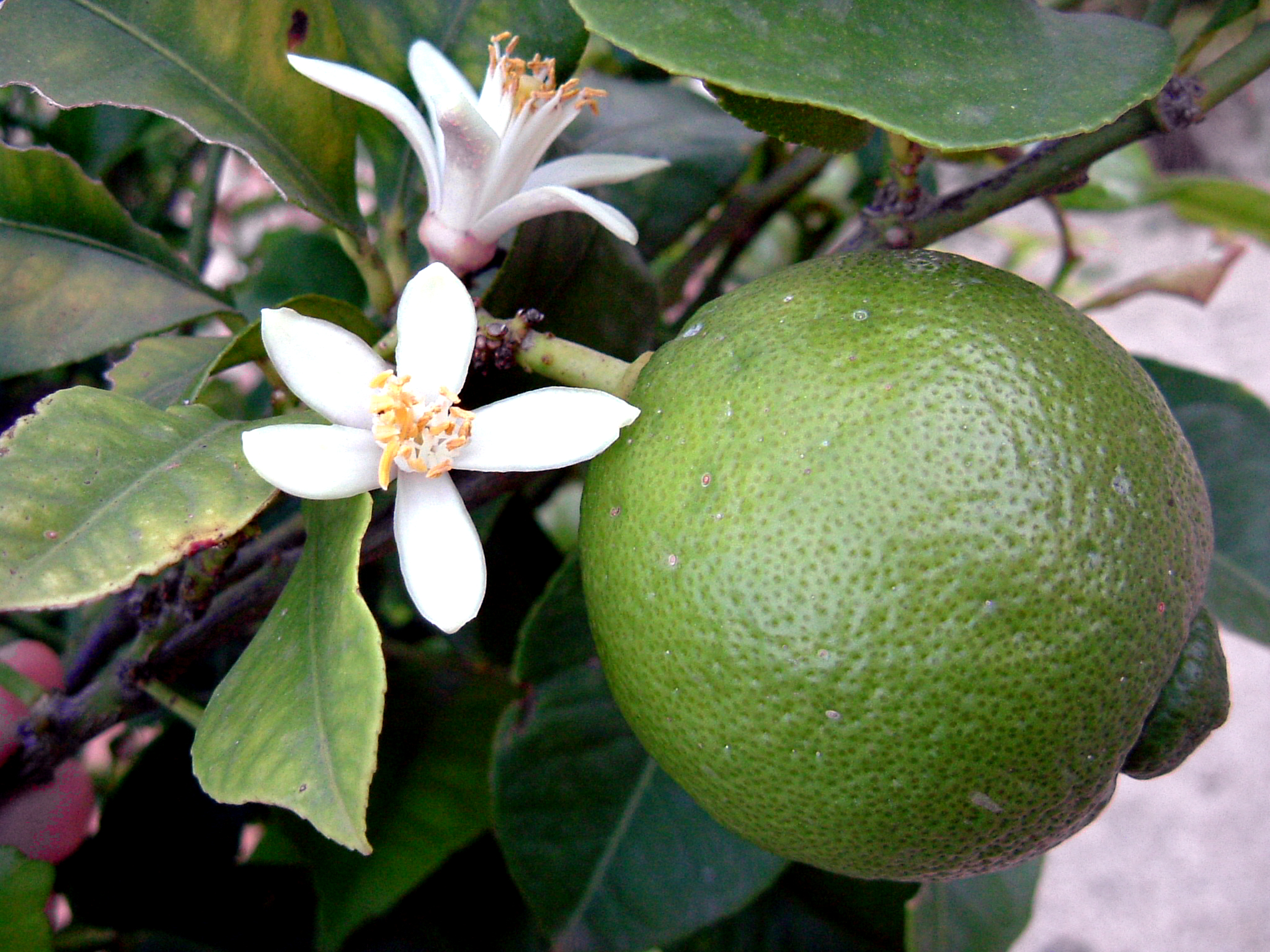 Adjusted white balance version the "Lime Blossom" image.